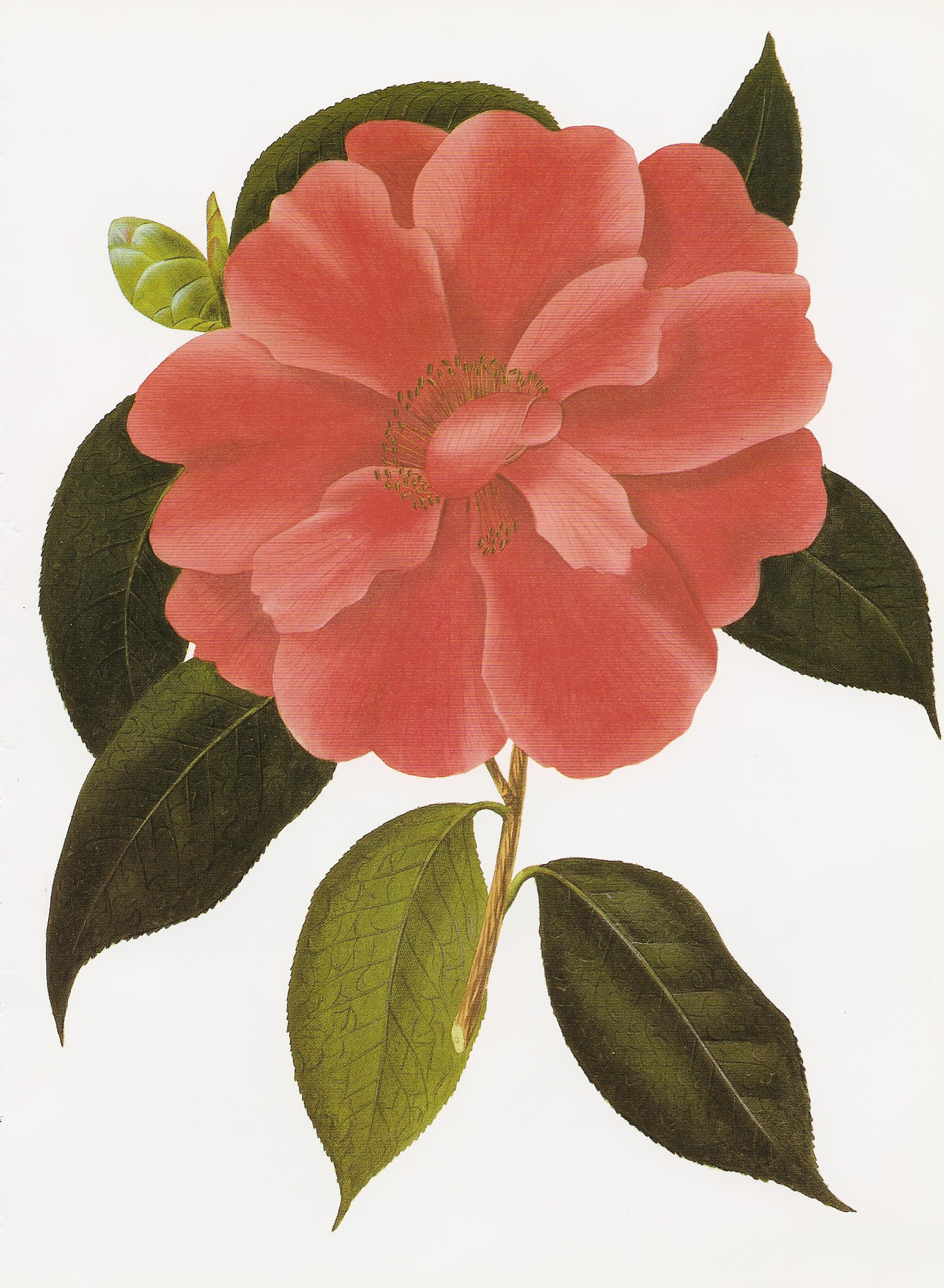 Camellia reticulata, a hand-coloured engraving after a drawing by Alfred Chandler (1804-1896), from Illustrations and Descriptions of the Plants which Compose the Natural Order Camellieae (1831) by Chandler and William Beattie Booth. This plant was introduced into England by the Horticultural Society's collector John Damper Parks in 1824 and named by John Lindley.